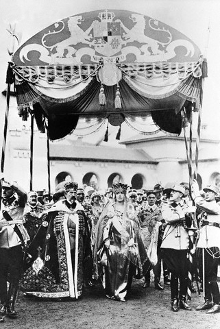 King Ferdinand I of Romania Queen Mary of Romania